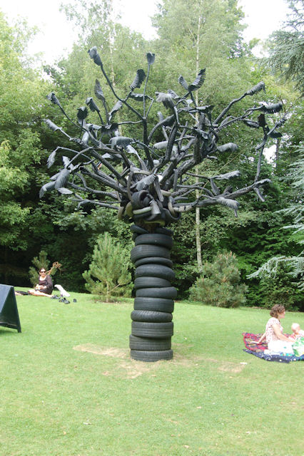 Rubber Tree - Waddesdon Manor This Sculpture, made from recycled tyres and inner tubes, was made during the recent 'Mad about Waddesdon' festival on 28th/29th June 2008. It was a collaborative project, involving pupils from Waddesdon School and others who worked with Ann Carrington, the designer, over the 2 day festival to make the leaves and branches and assemble the tree.